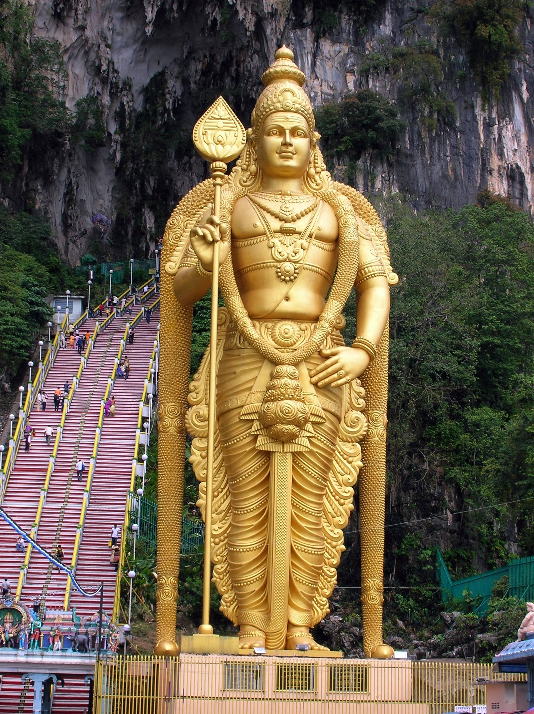 Batu Caves, near Kuala Lumpur, Malaysia Standing at 42.7 meter (140.09 ft) high, the world's tallest statue of Lord Muruga[1] is located outside Batu Caves, near the city of Kuala Lumpur, Malaysia.[2] The statue, which cost approximately RM 2.5 million,[3] is made of 1550 cubic metres of concrete, 250 tonnes of steel bars and 300 litres of gold paint brought in from neighboring Thailand.[2] References ↑ (2006-01-29). "Tallest Murugan Statue In The World Unveiled At Batu Caves". Error: journal= not stated. Bernama: Malaysian National News Agency. Retrieved on 2008-02-15. ↑ a b (2006-01-30). "Giant Murugan statue unveiled in Malaysia". Press Trust of India. The Hindu. Retrieved on 2008-02-12. ↑ (2006-01-29). "Tallest Murugan Statue In The World Unveiled At Batu Caves". Error: journal= not stated. Bernama: Malaysian National News Agency. Retrieved on 2008-02-15.